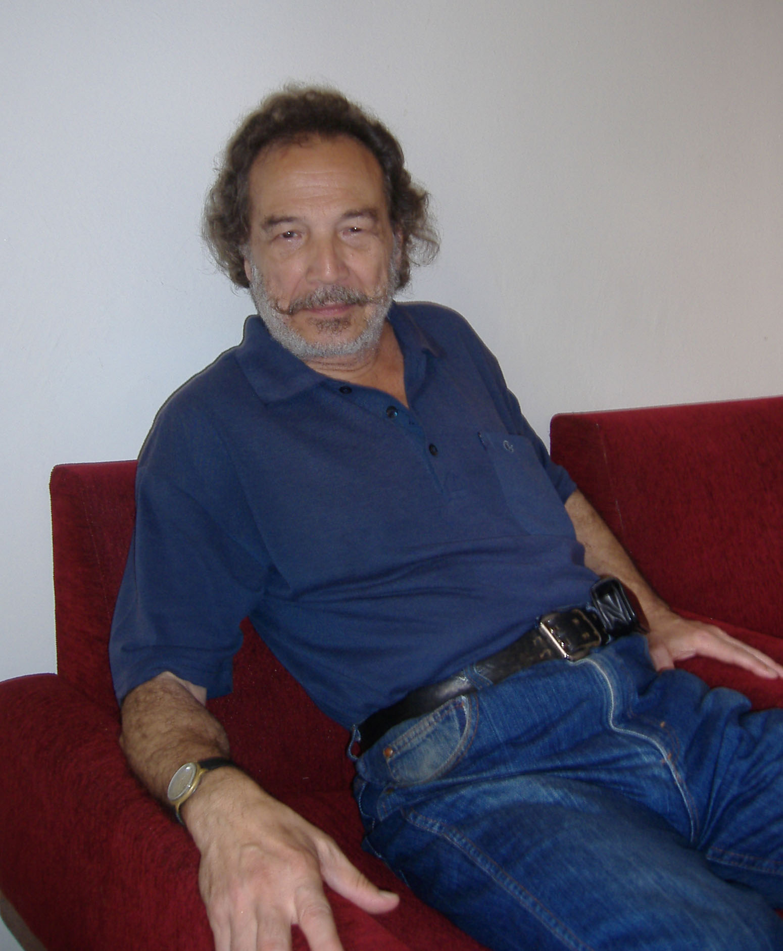 Tunisian actor and director Abdelmajid Lakhal in 2007